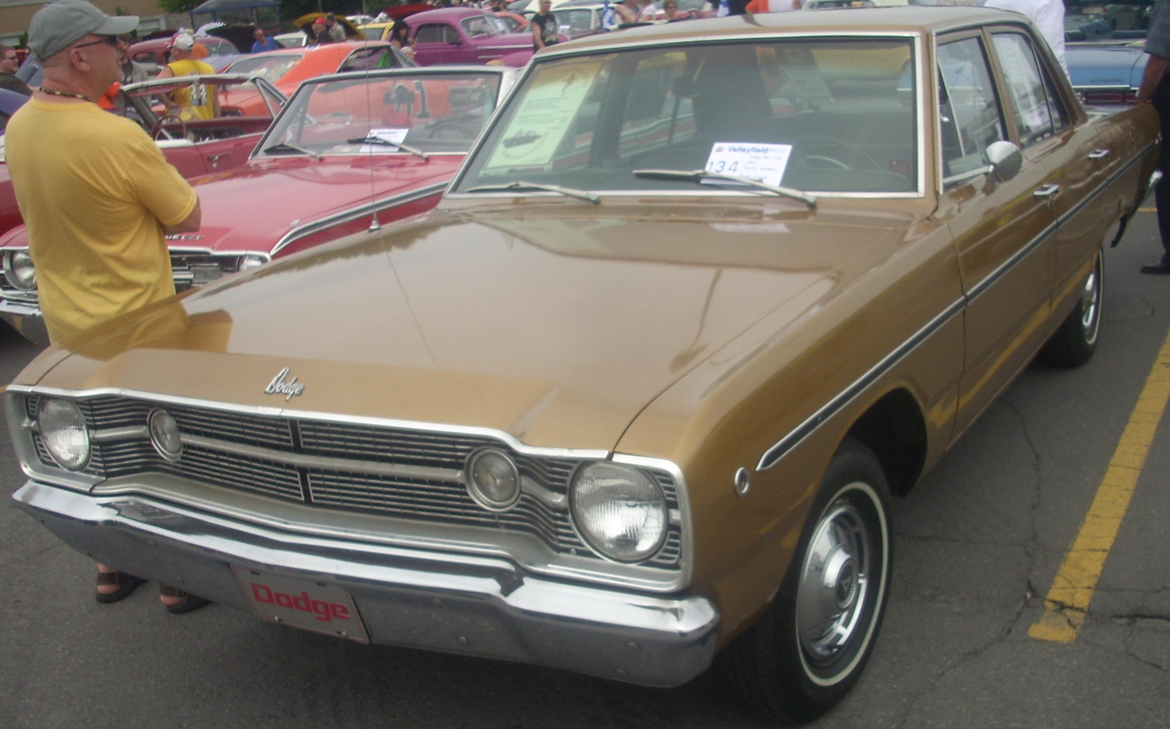 1968 Dodge Dart photographed in Salaberry De Valleyfield, Quebec, Canada at Rassemblement Mopar Valleyfield 2010.